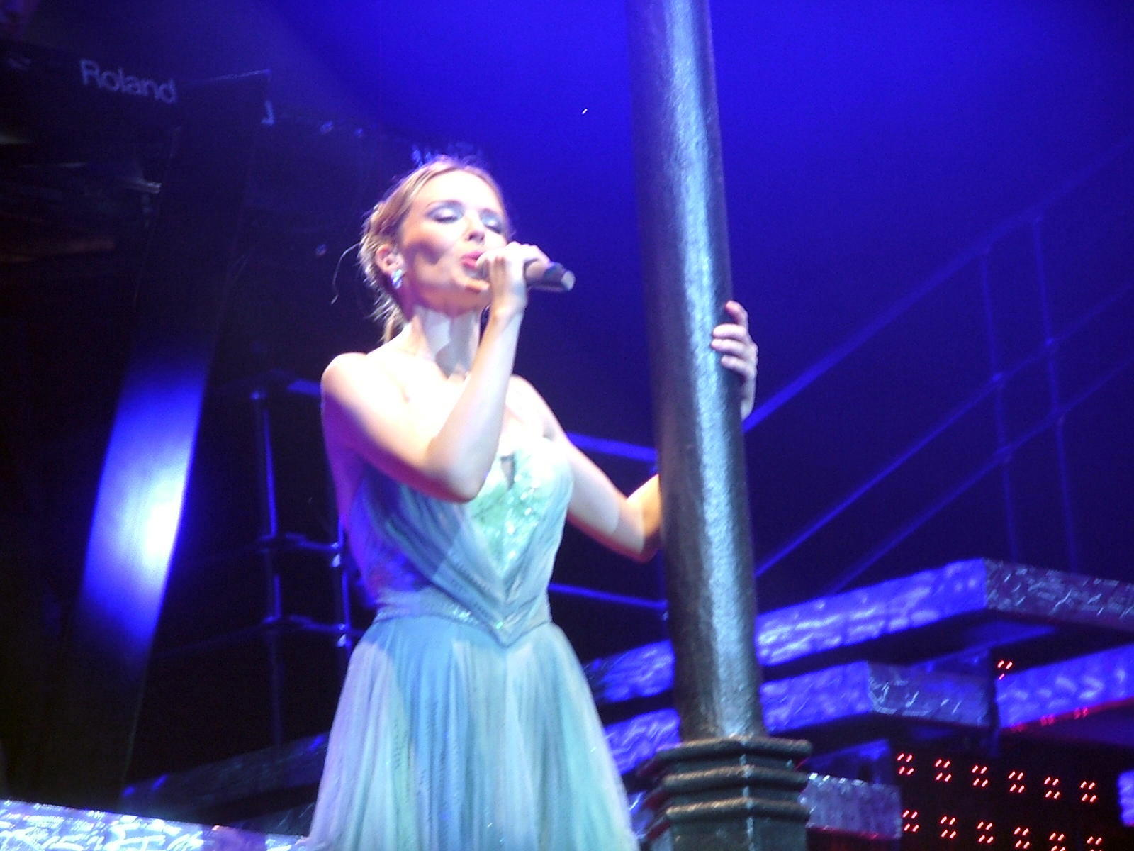 Kylie Minogue live in Paris - Kylie's Lampost - April 20th 2005